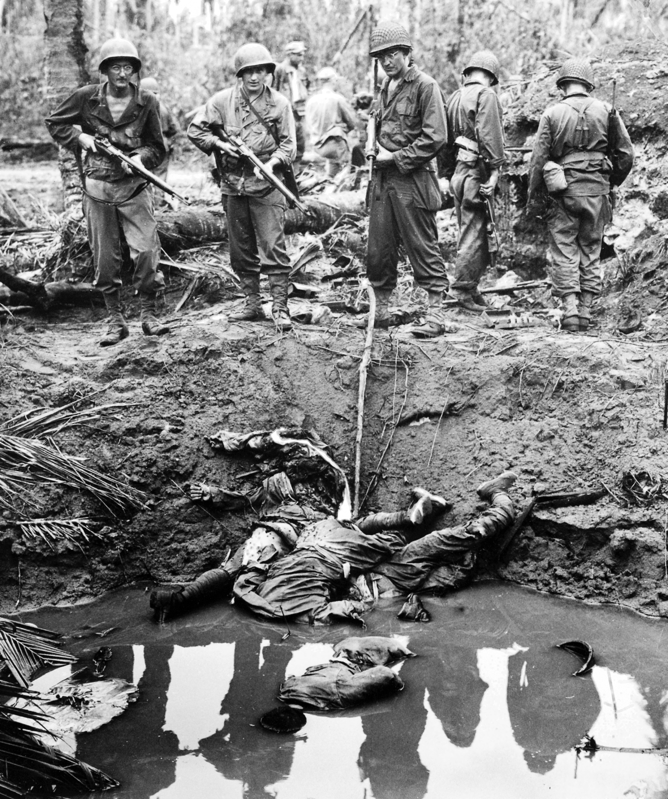 Three Japanese snipers elected to shoot it out during the battle for Leyte Island. Yankee bullets drilled the Japanese Soldiers and dropped them in the muddy water of a bomb crater, where they sought shelter in a running rifle fight.